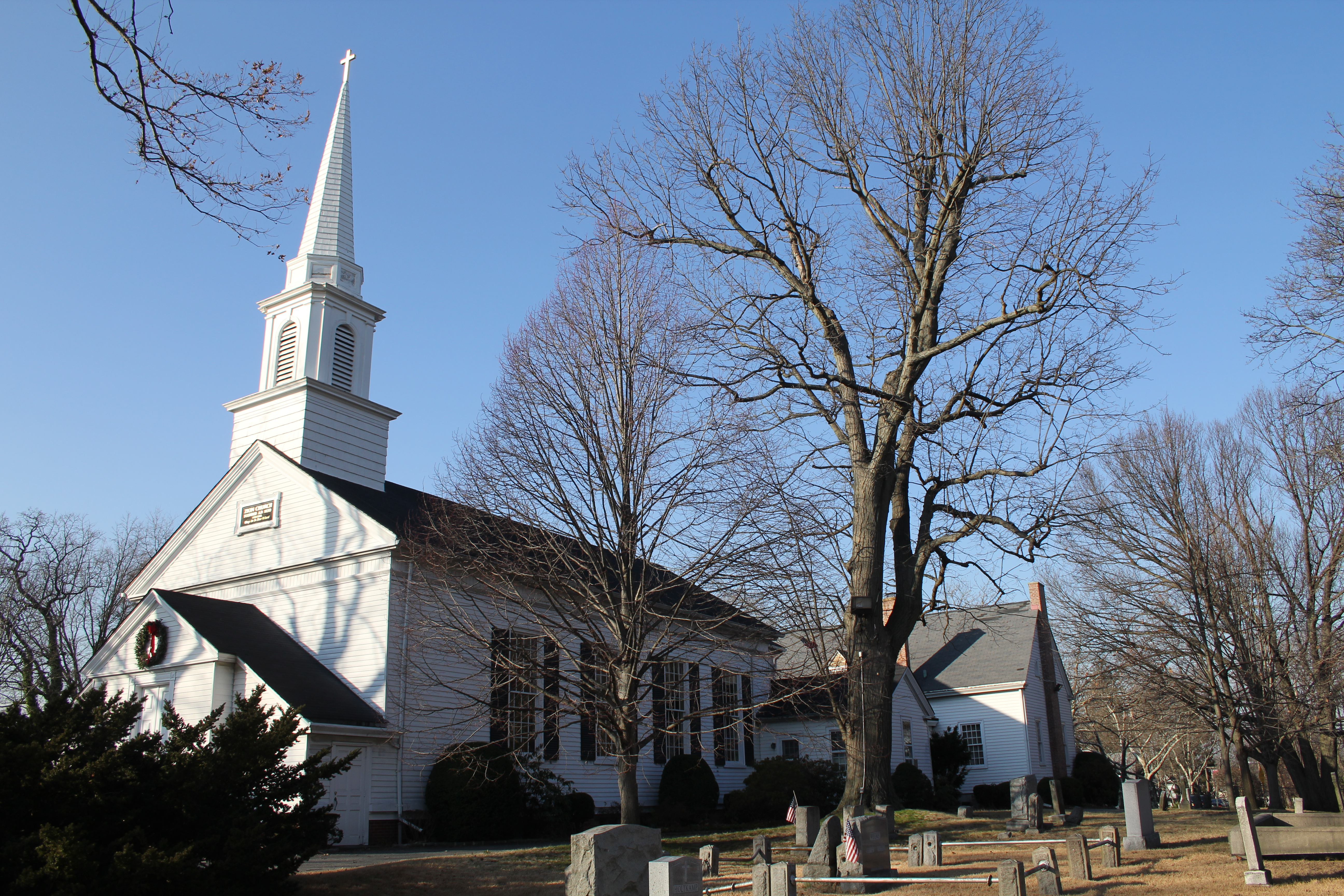 Zion Episcopal Church in Douglaston, Borough of Queens, New York City. The church is located on a large plot of land that includes a cemetery. Part of the Douglaston Hill Historic District.